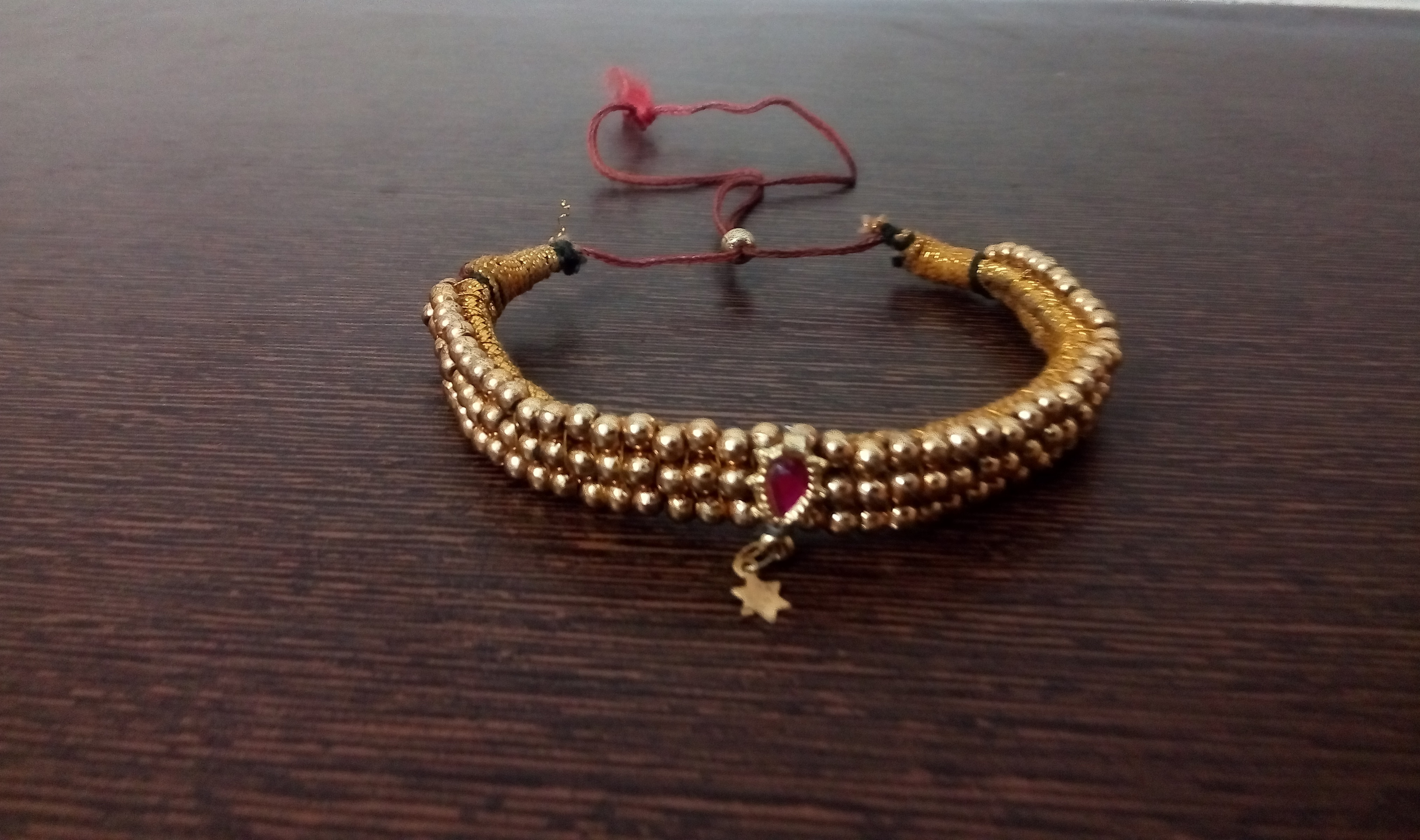 वज्रटिक